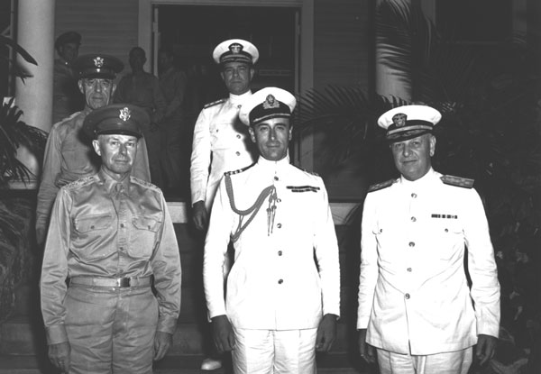 Lord Louis Mountbatten, center, Lt. General Walter Short, left, Admiral Husband Kimmel, right. In the back row are: Major general Frederick L. Martin and Rear admiral Patrick N. L. Bellinger.